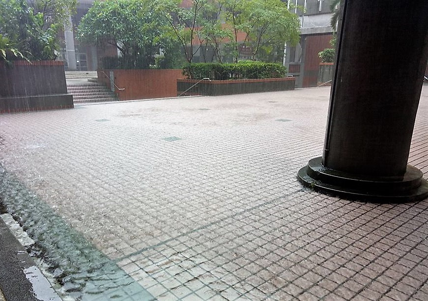 A raining day in National Wuling Senior High School.jpg